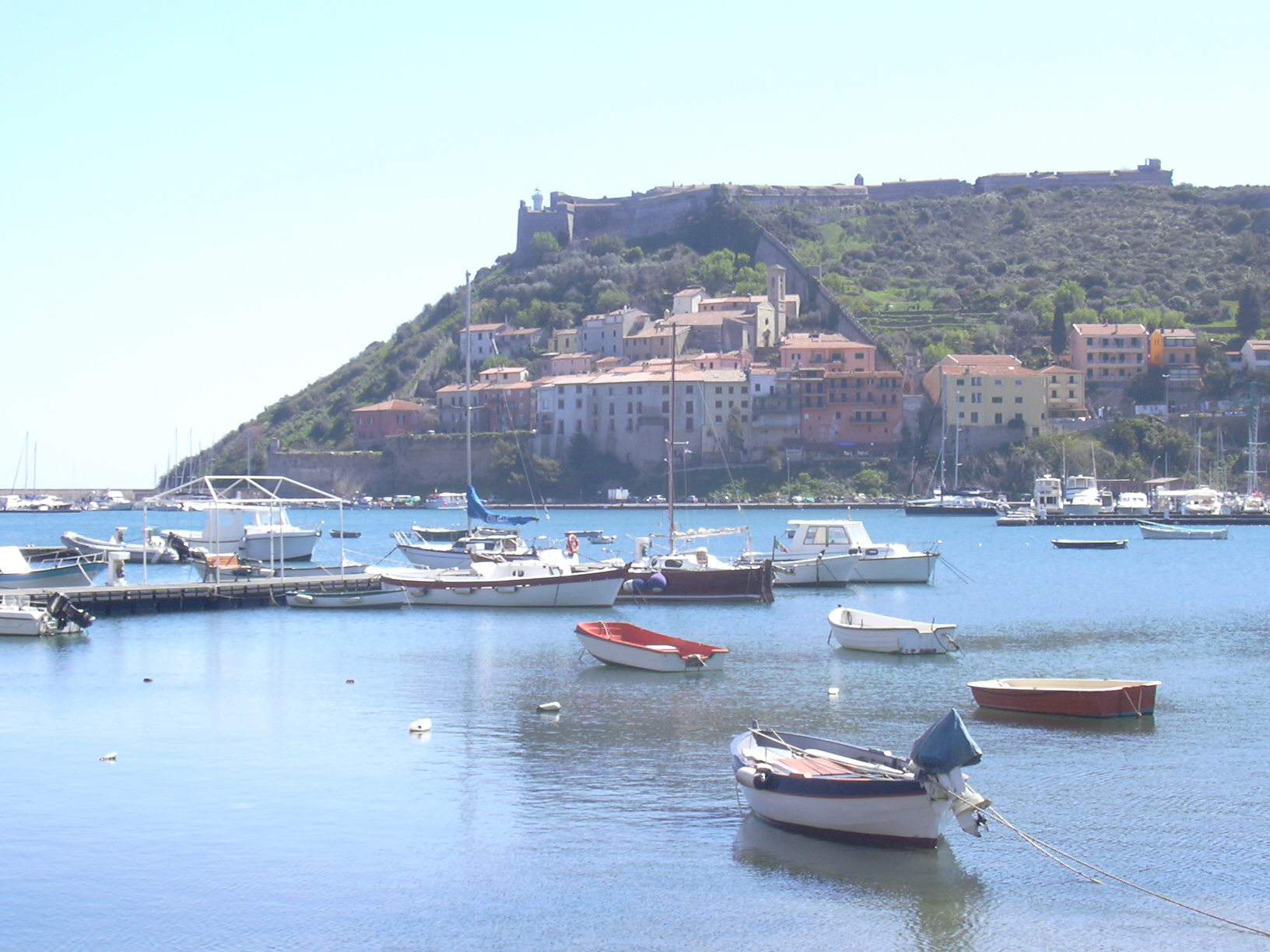 Porto Ercole, Tuscany/Italy, Old Town + Spanish Fortification